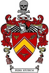 AGK Crest